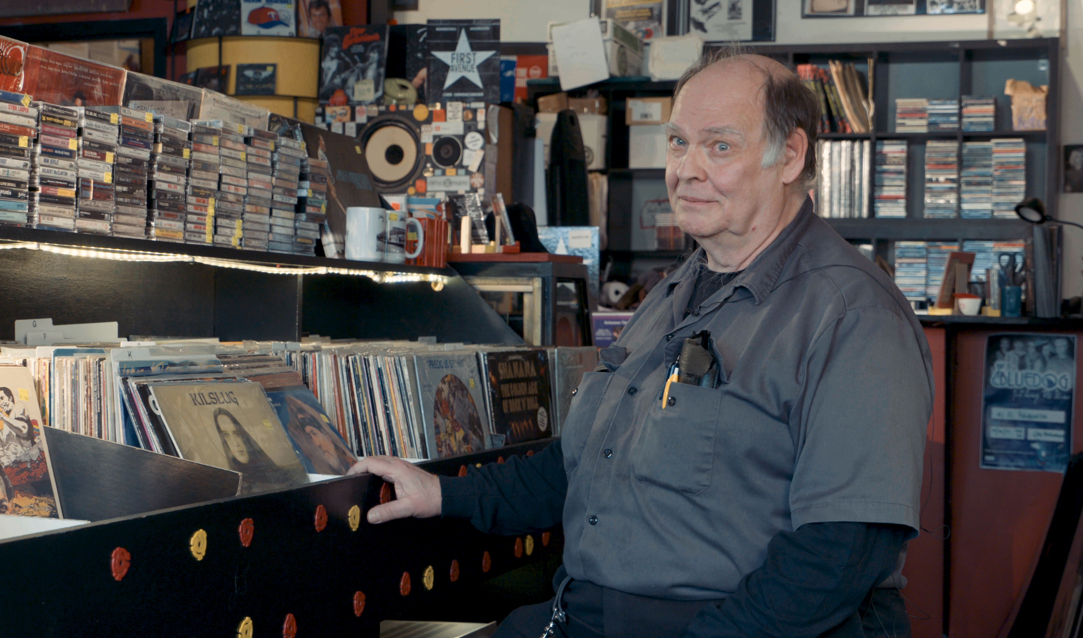 Steve McClellan, interviewed at HiFi Records by the Minnesota Historical Society for the First Avenue: Stories of Minnesota's Mainroom exhibit, February 2019.